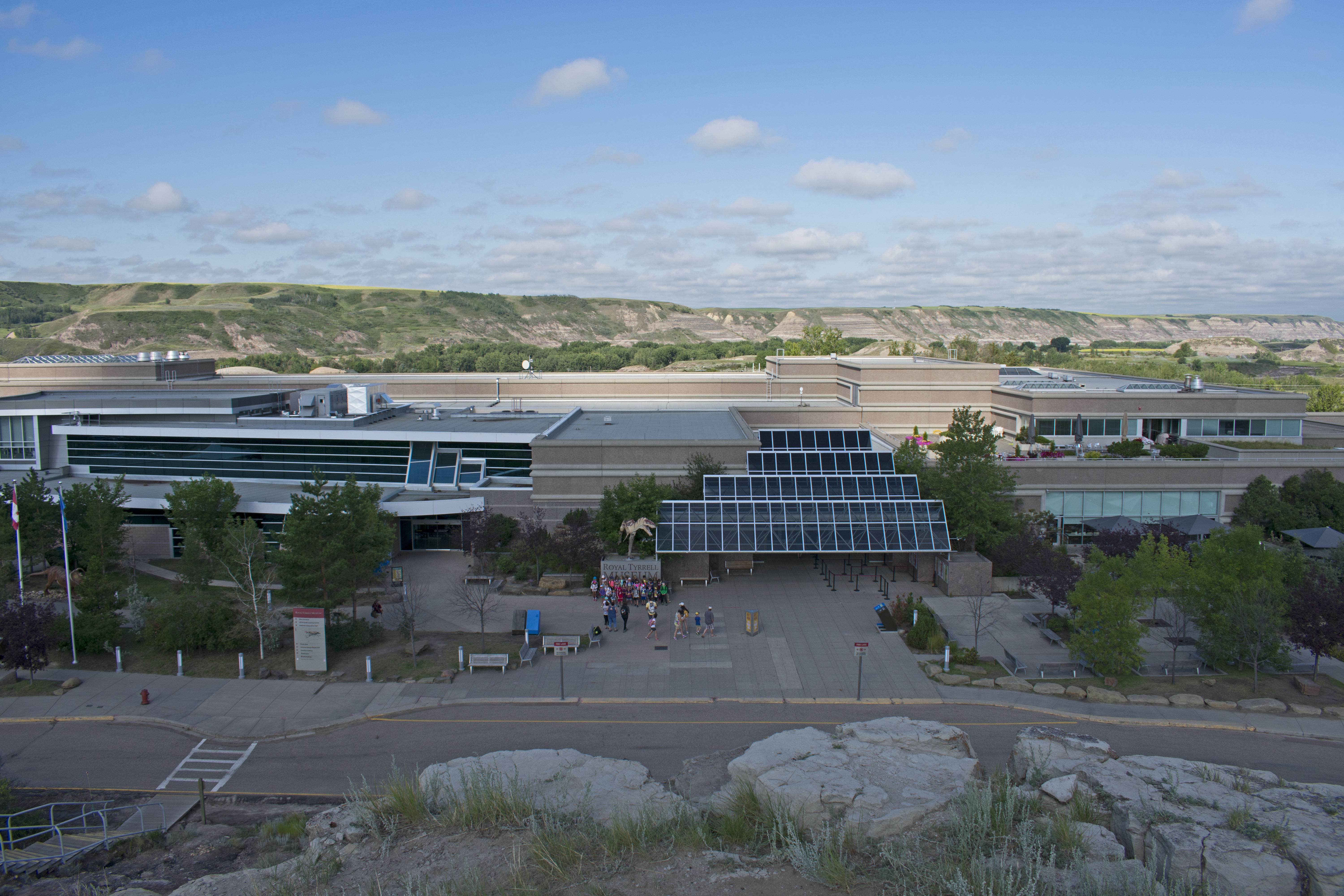 Royal Tyrrell Museum from the viewpoint